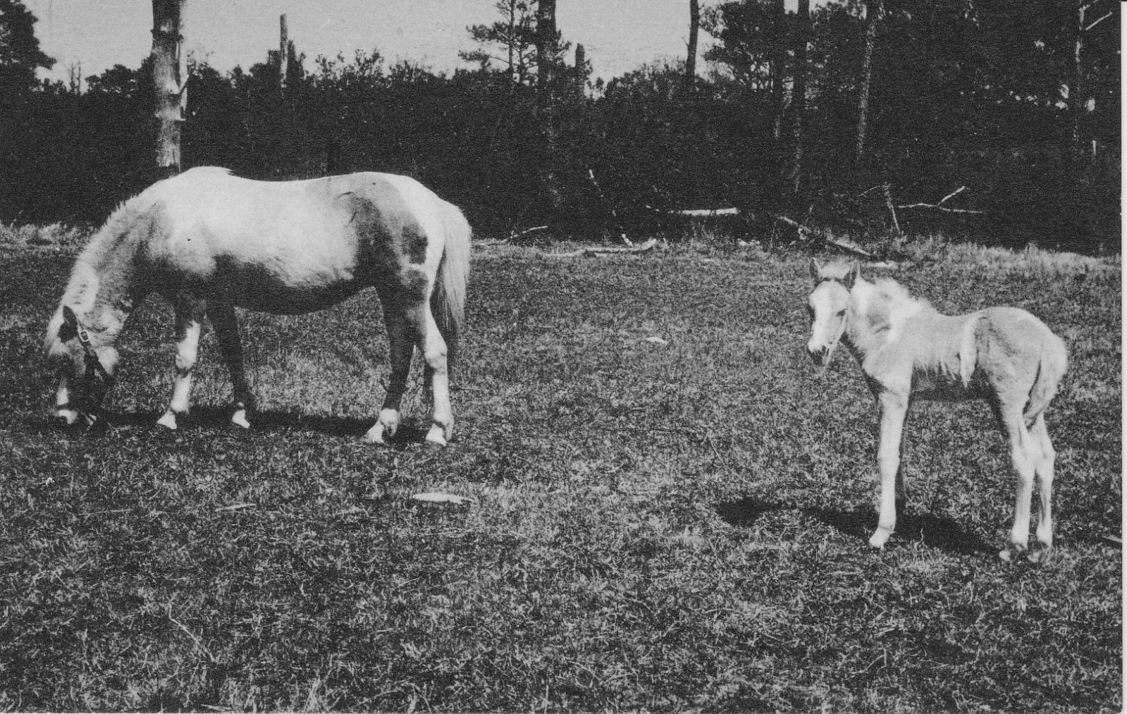 The famous Misty of Chincoteague (left) with one of her foals